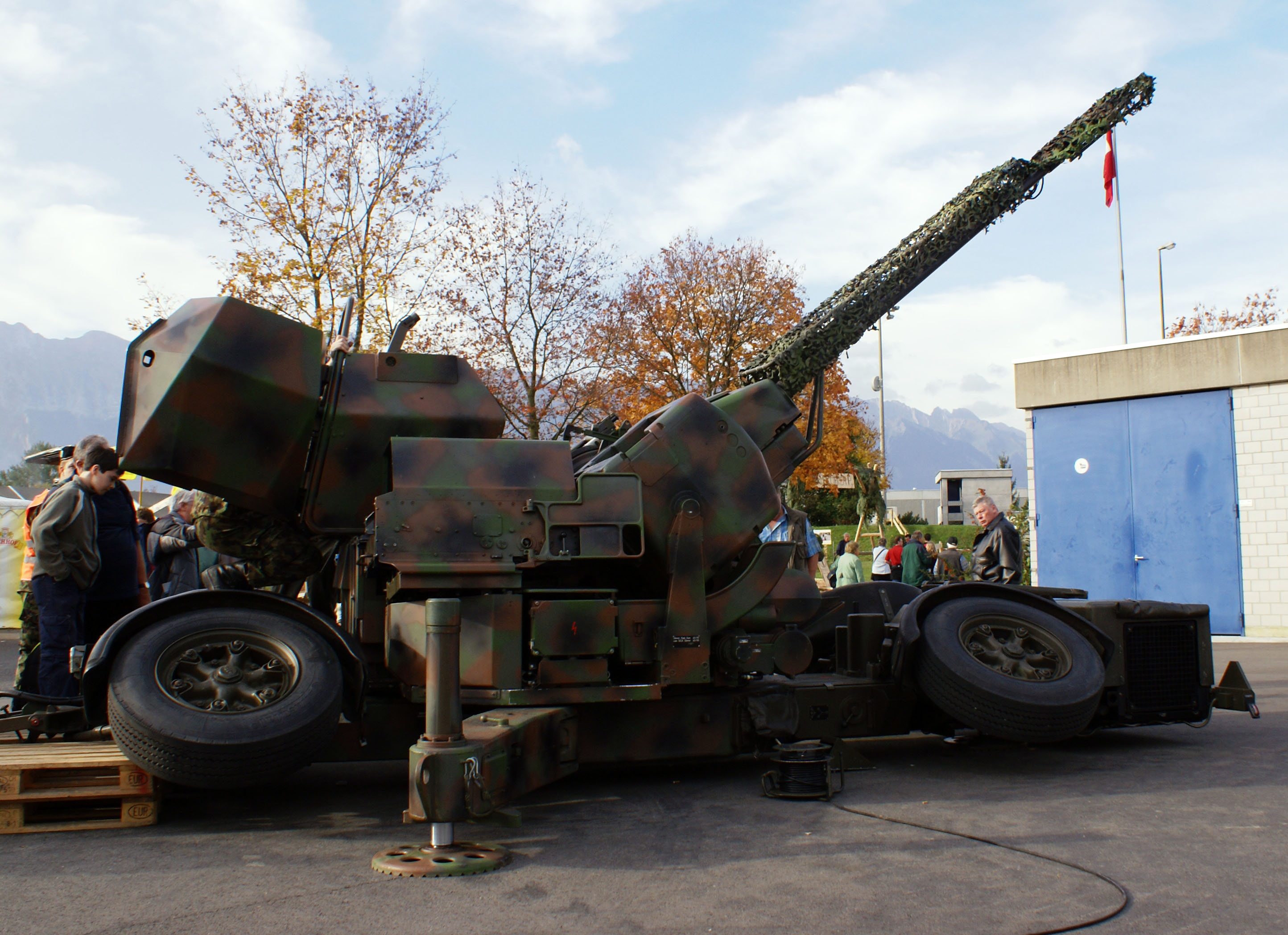 Swiss Army. 35mm twin antiaircraft gun (Flab Kan) 63/90